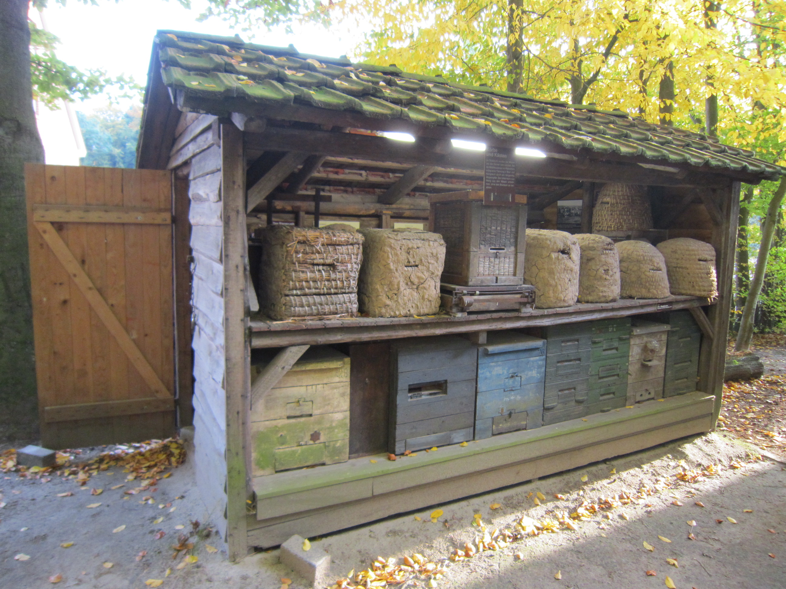 Beehouses at Syke's "Kreismuseum"